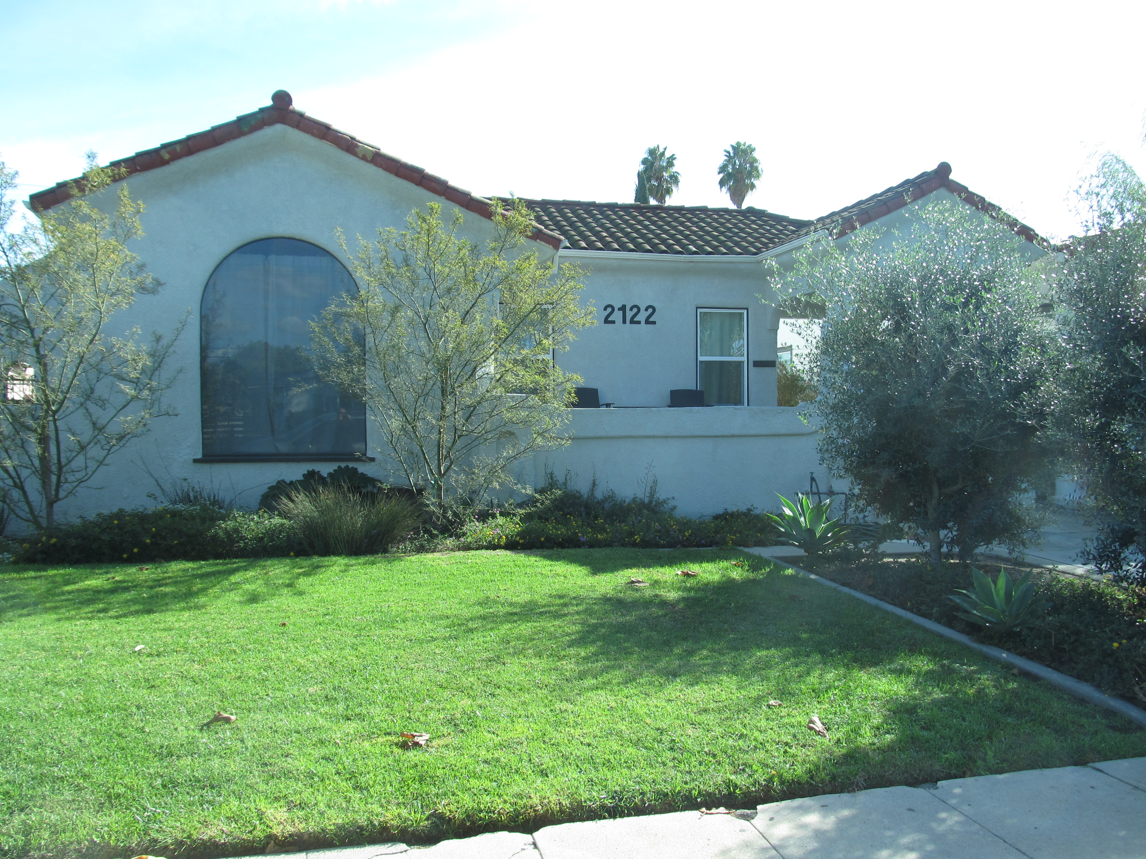 Charles Bukowski's childhood home (years 1931-1940), located in Mid-City Heights at 2122 S. Longwood Avenue